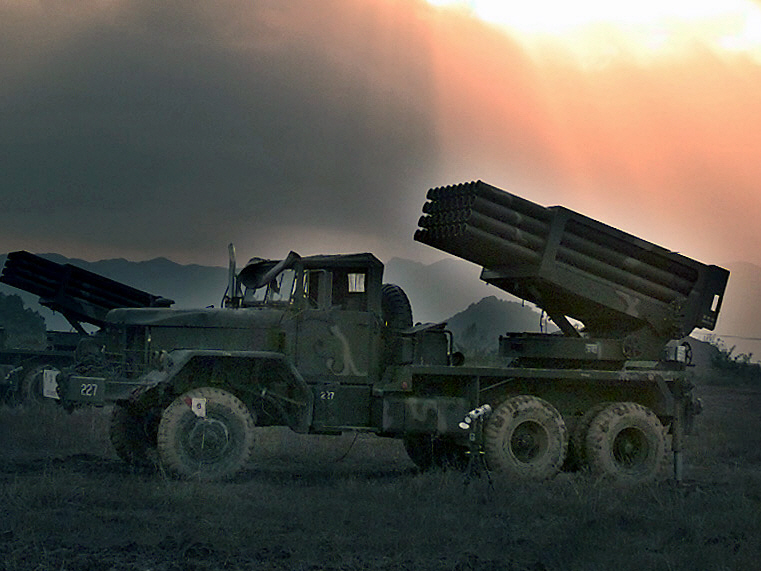 Kooryoung 130mm (36-round) Multiple Rocket Launch Systems (MRLS) mounted on KM809A1 (6x6) truck chassis from Republic of Korea (ROK) Army's 3rd ROK Corps stand ready to fire during a combined training excercise with the US Army's 6th Battalion, 37th Field Artillery, Bravo Battery at Kwo Suck Jong Training Area. The combined training gave each group the chance to see how the other operates.